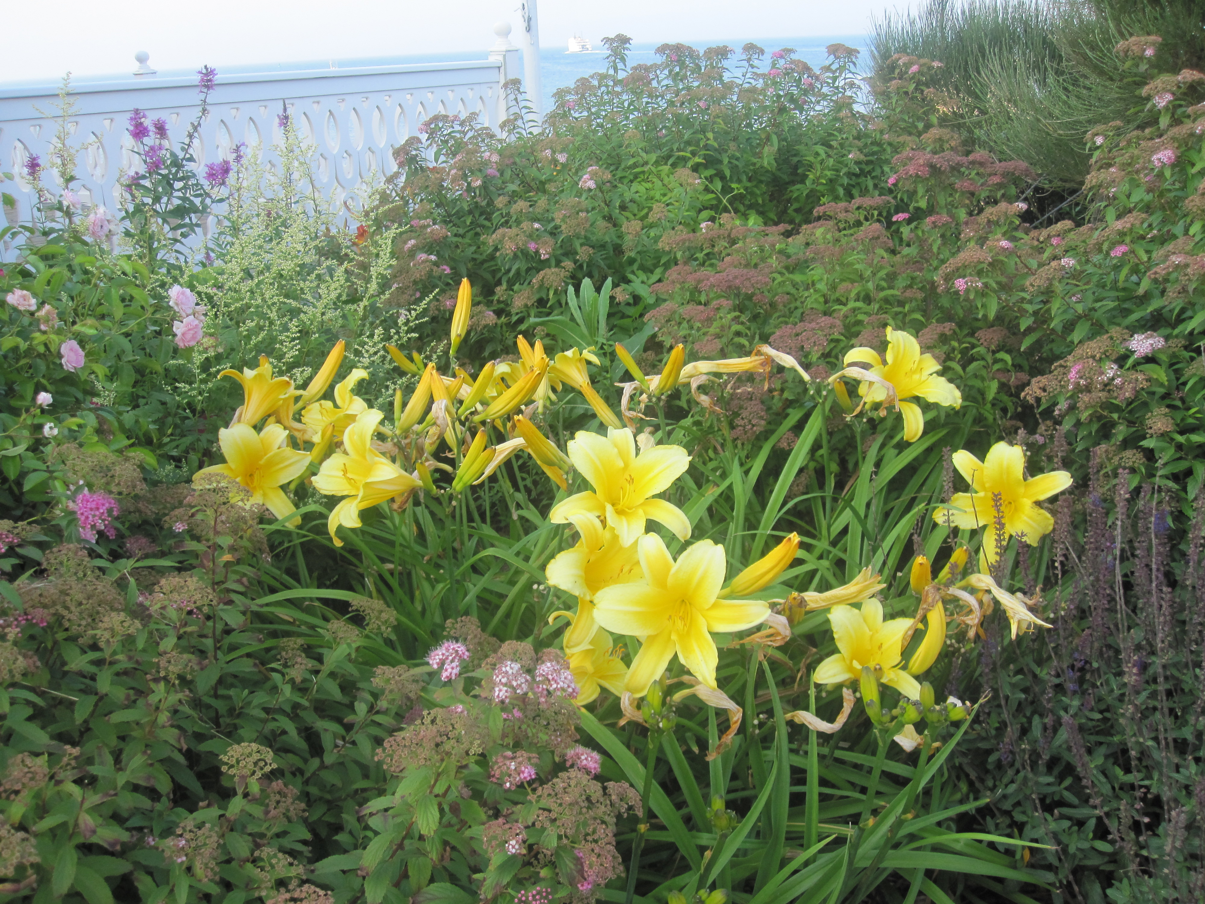 Daylilies (Hemerocallis) and garden, in New Shoreham, on Block Island, Rhode Island.